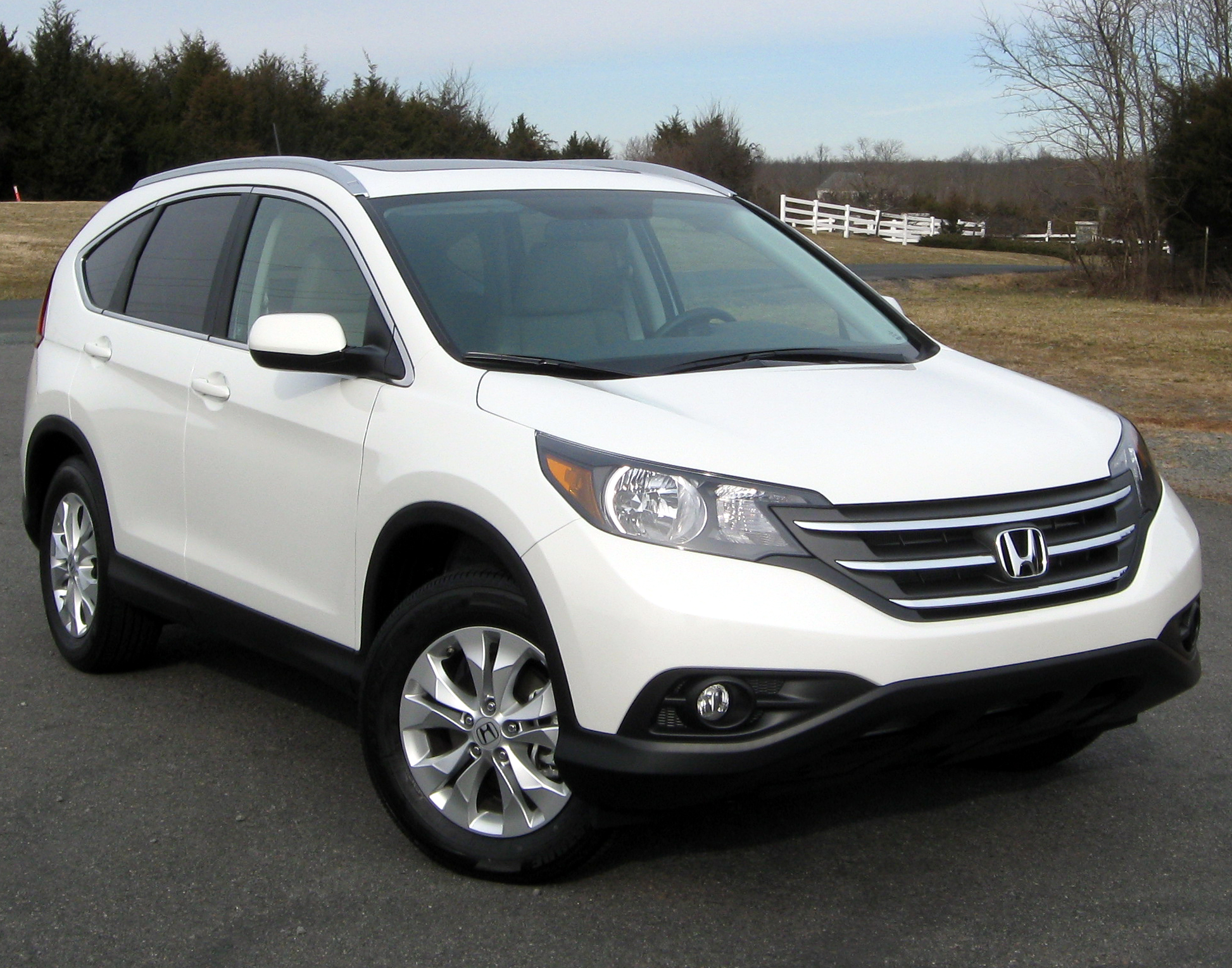 2012 Honda CR-V photographed in Centreville, Virginia, USA.